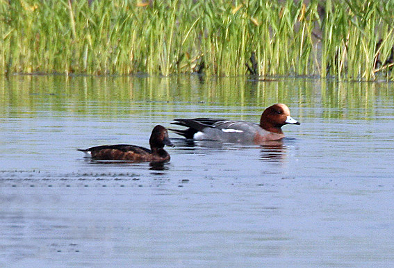 Ferruginous Pochard Aythya nyroca & Eurasian Wigeon Anas penelope at Purbasthali in Burdwan District of West Bengal, India.